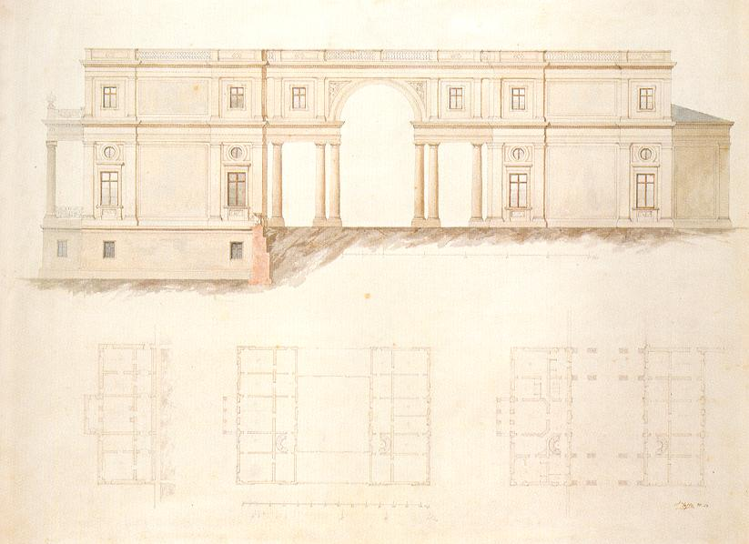 Elevation and ground-plan, eastern corner pavillon, Orangery palace, Potsdam, Germany